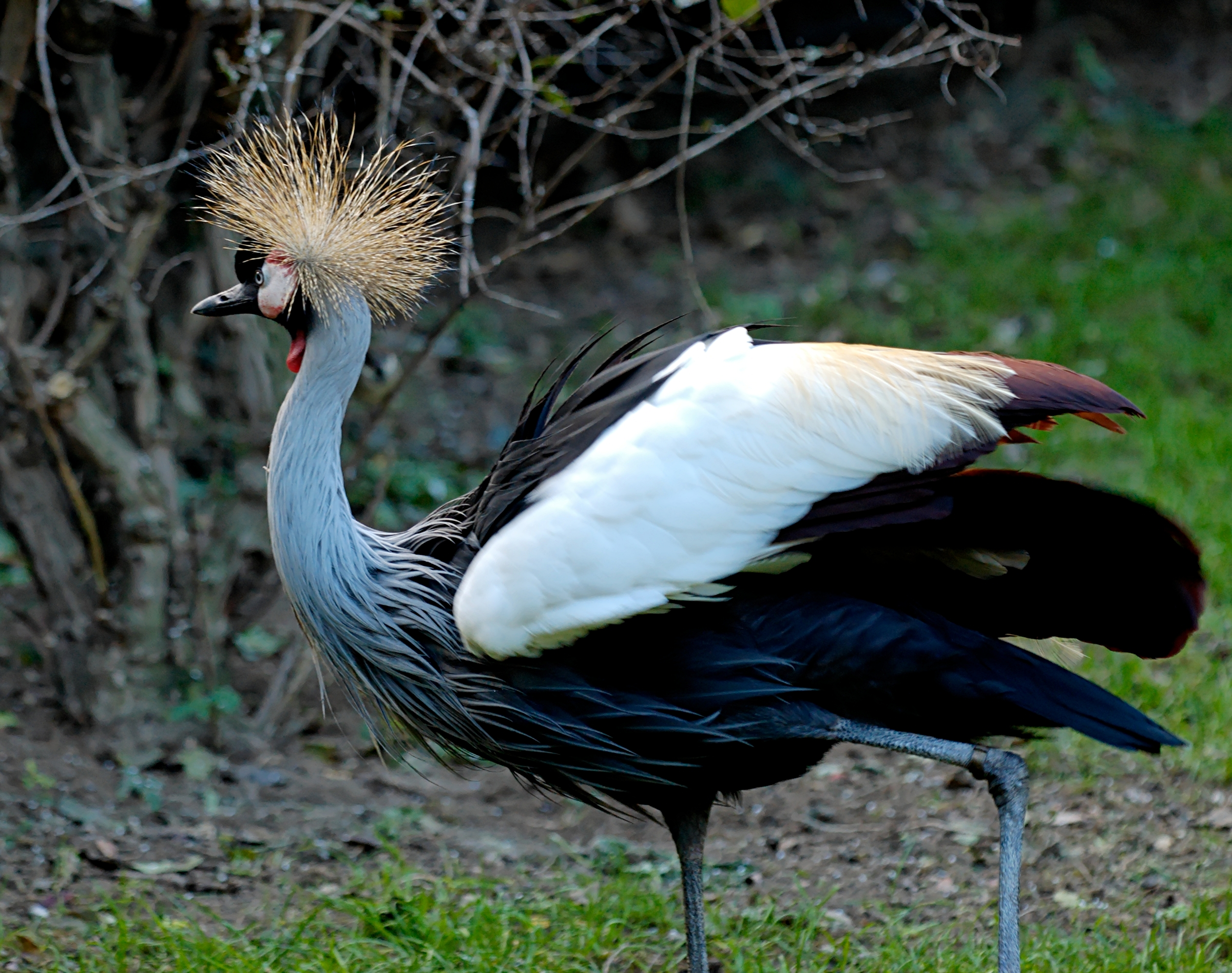 Grey-crowned crane (Balearica regulorum) hopping. From the zoological garden of the Jardin des Plantes in Paris.